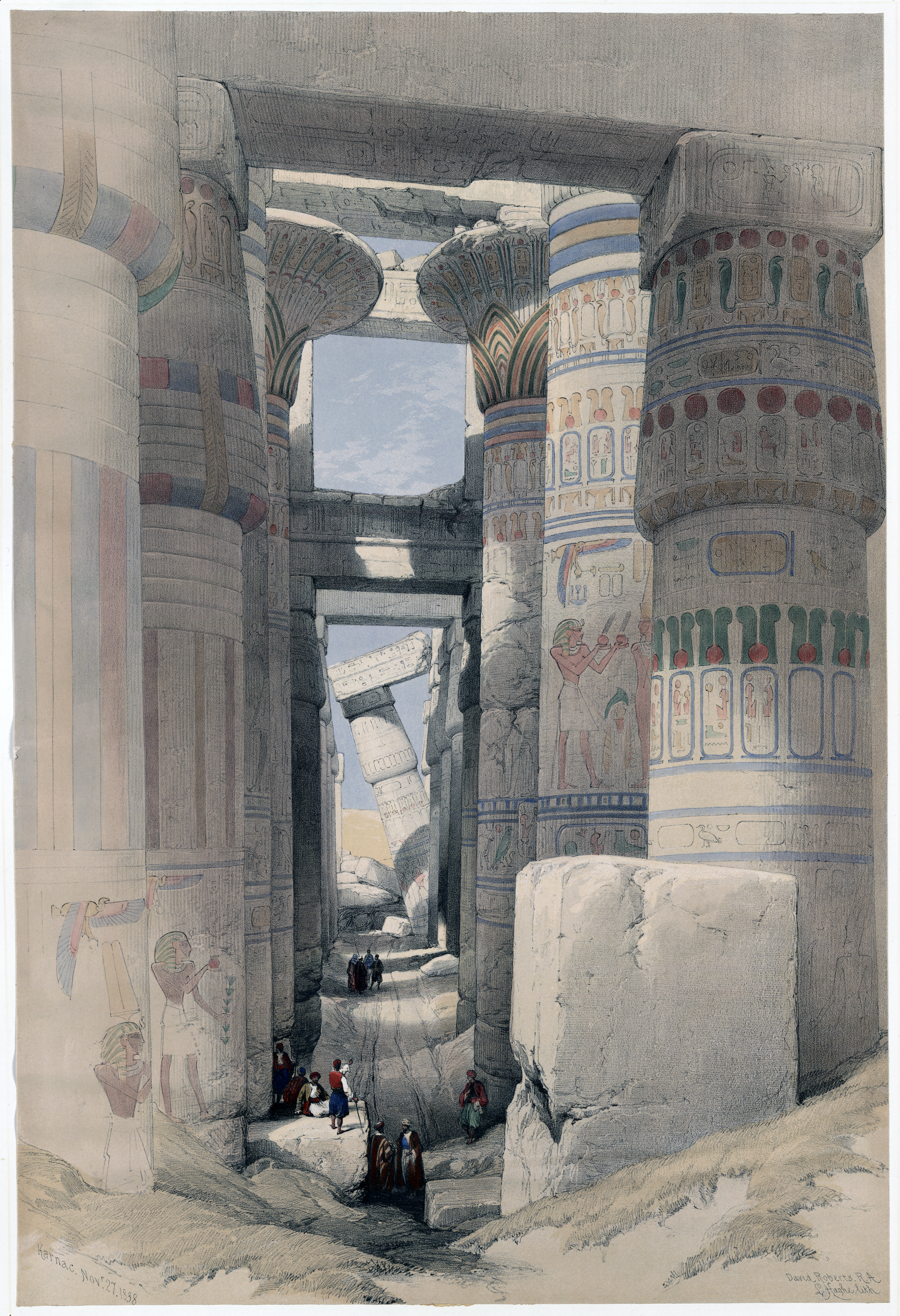 Karnac: "Dromos or first court of the temple." colored lithograph of Karnak